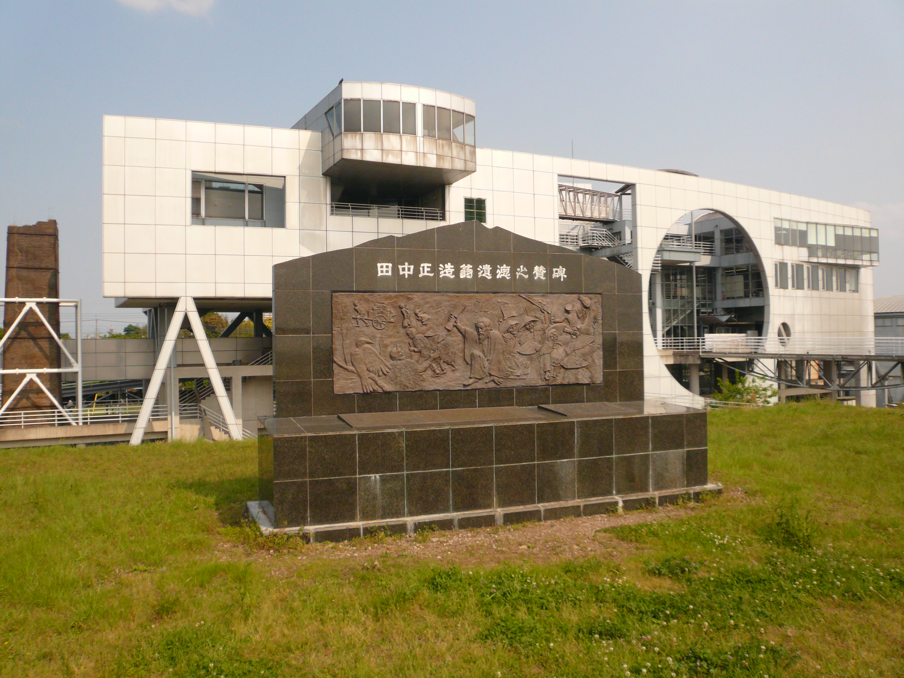 Tanaka Shozo, Koga, Ibaraki, Japan